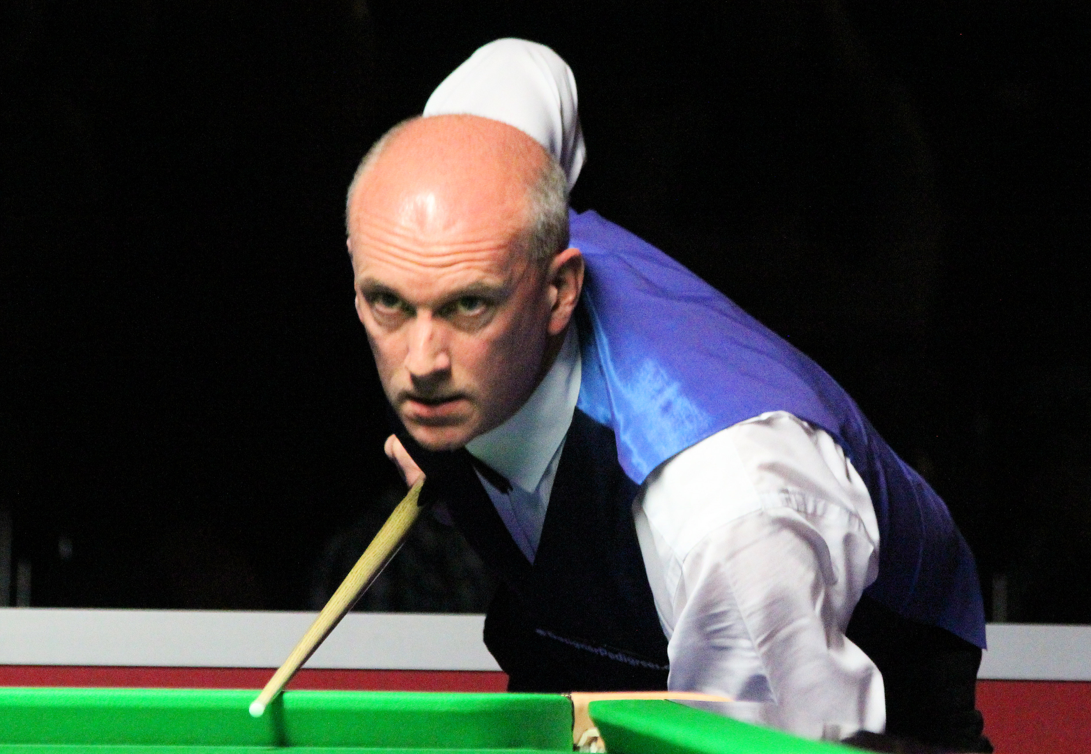 Peter Ebdon at the Paul Hunter Classic 2018